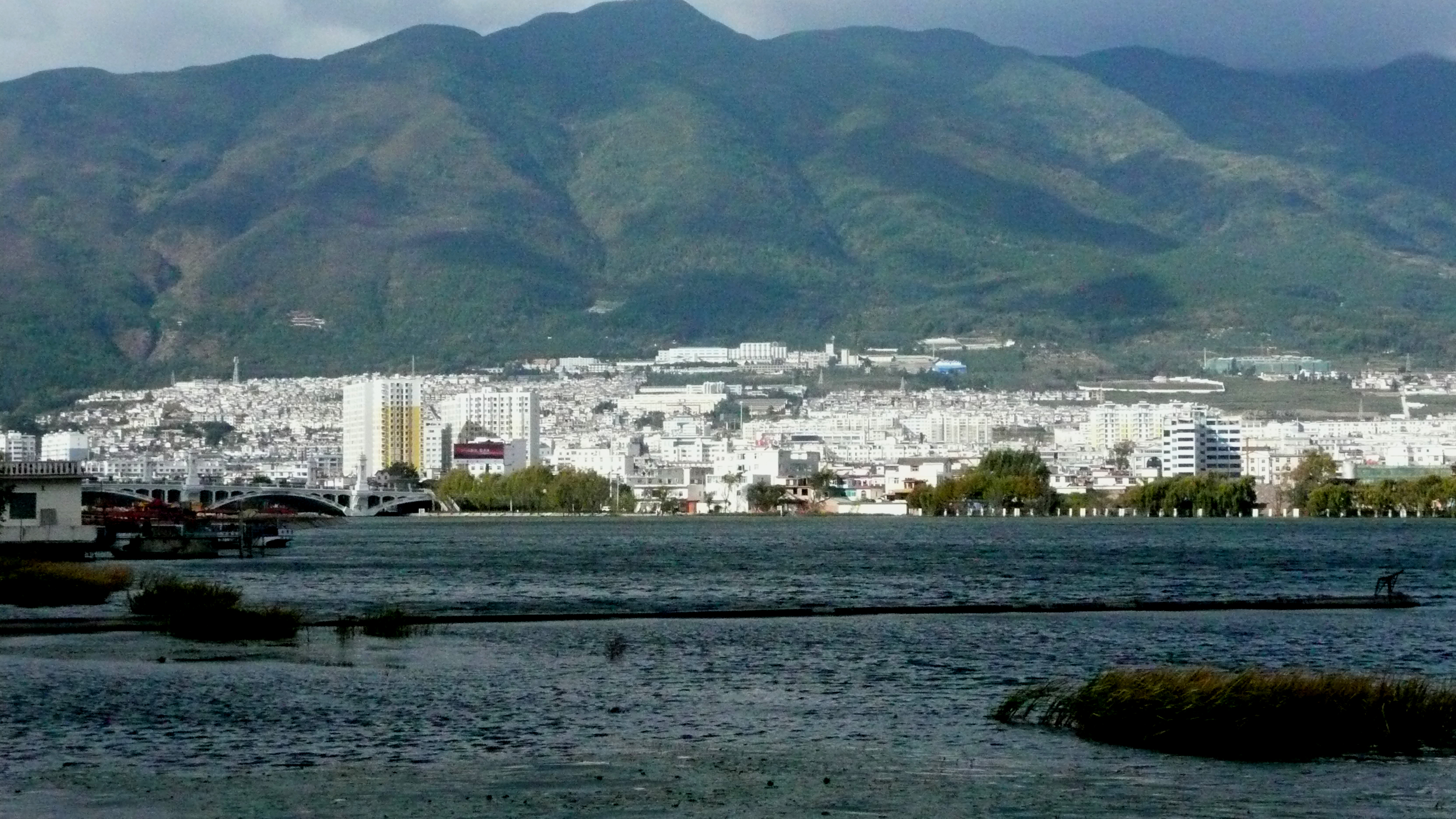 Dali Xiaguan - New Dali City, Yunnan